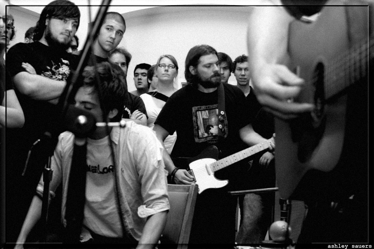 Pygmy Lush performing live on Aug. 12, 2007, at a different kind of dude fest.